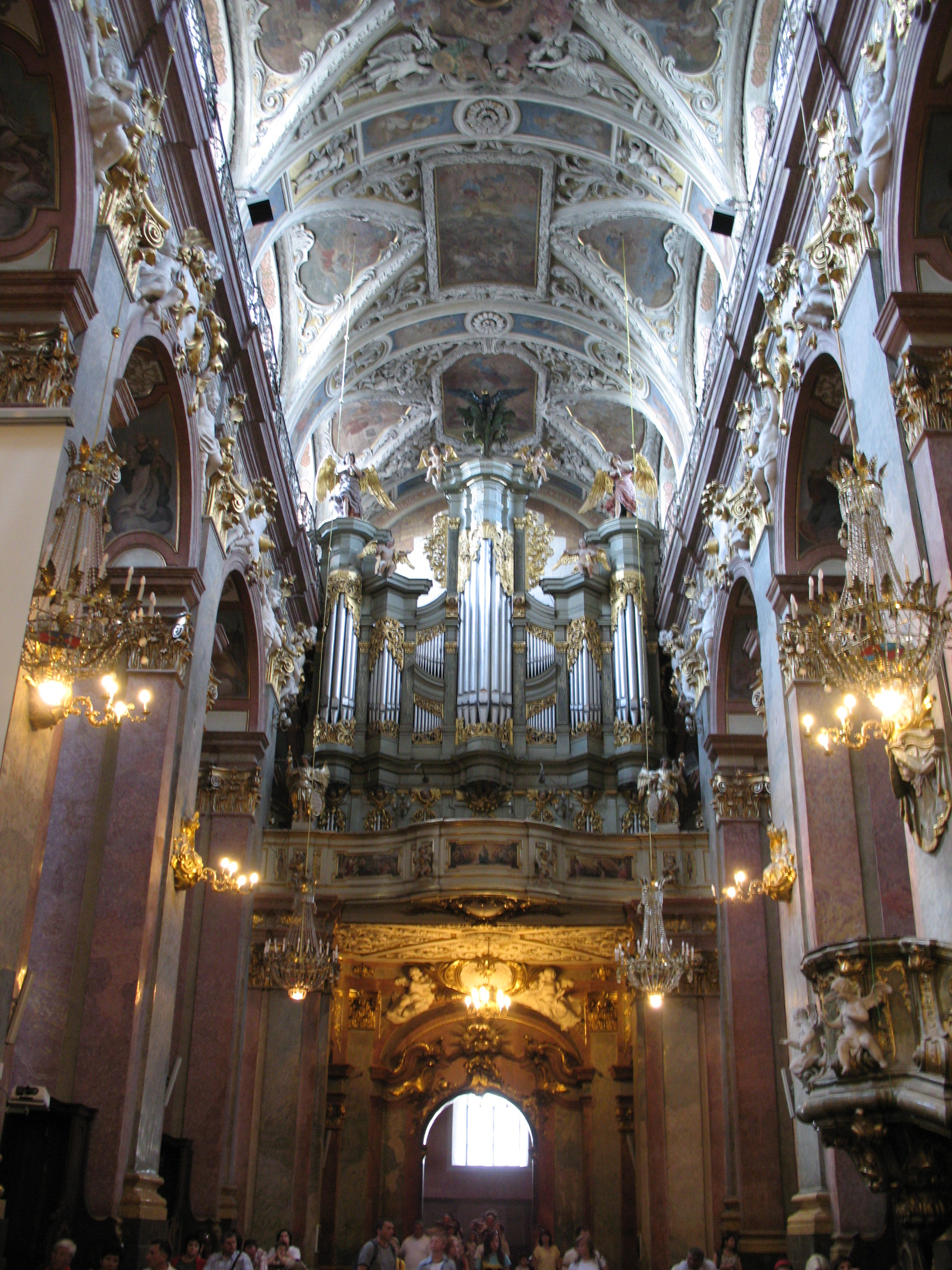 Basilica Organ